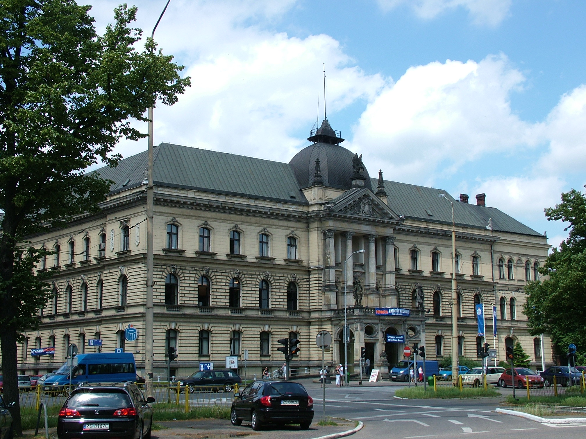 Former pomeranian land owners' bank, today a bank builing again.